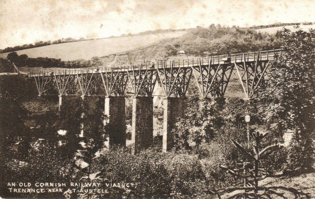 The original timber St Austell viaduct, Cornwall. Built by Isambard Kingdom Brunel for the broad gauge Cornwall Railway which opened in 1859.